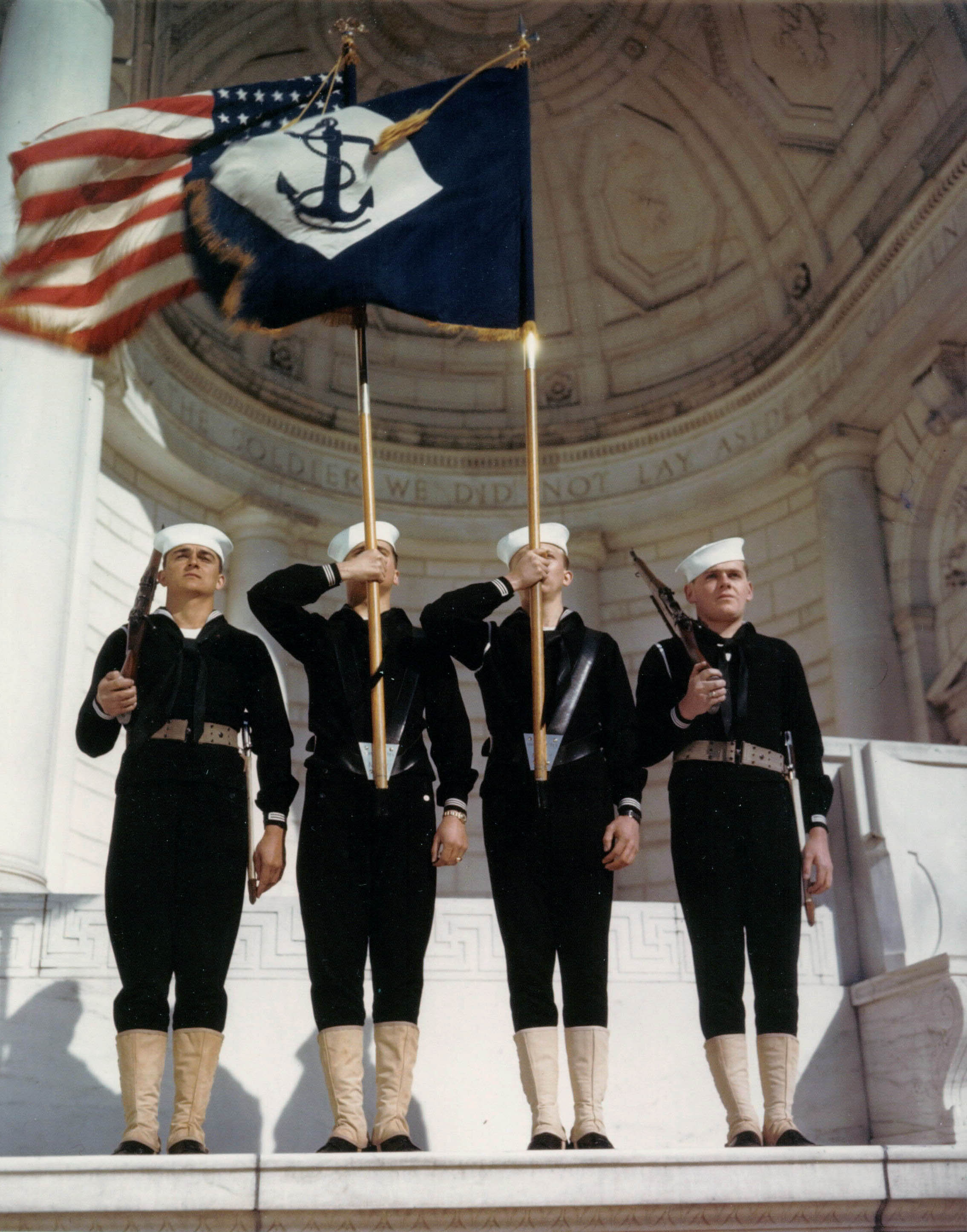 Arlington, Va. (Naval Historical File Photograph) -- A Navy color guard on parade at the Arlington National Cemetery Amphitheater, Va., during World War II. The blue and white “Navy Battalion” flag being held by the flag bearer on the right was the unofficial Navy flag until the current flag was adopted in 1957. The new Navy’s use of flags section of the Naval Historical Center’s (NHC) website includes subjects such as Battle Streamers, Commissioning Pennants, the U.S. Navy’s first Jack, the Iwo Jima flags, “striking the flag,” and submarine battle flags of World War II. U.S. Navy file photo. (RELEASED)